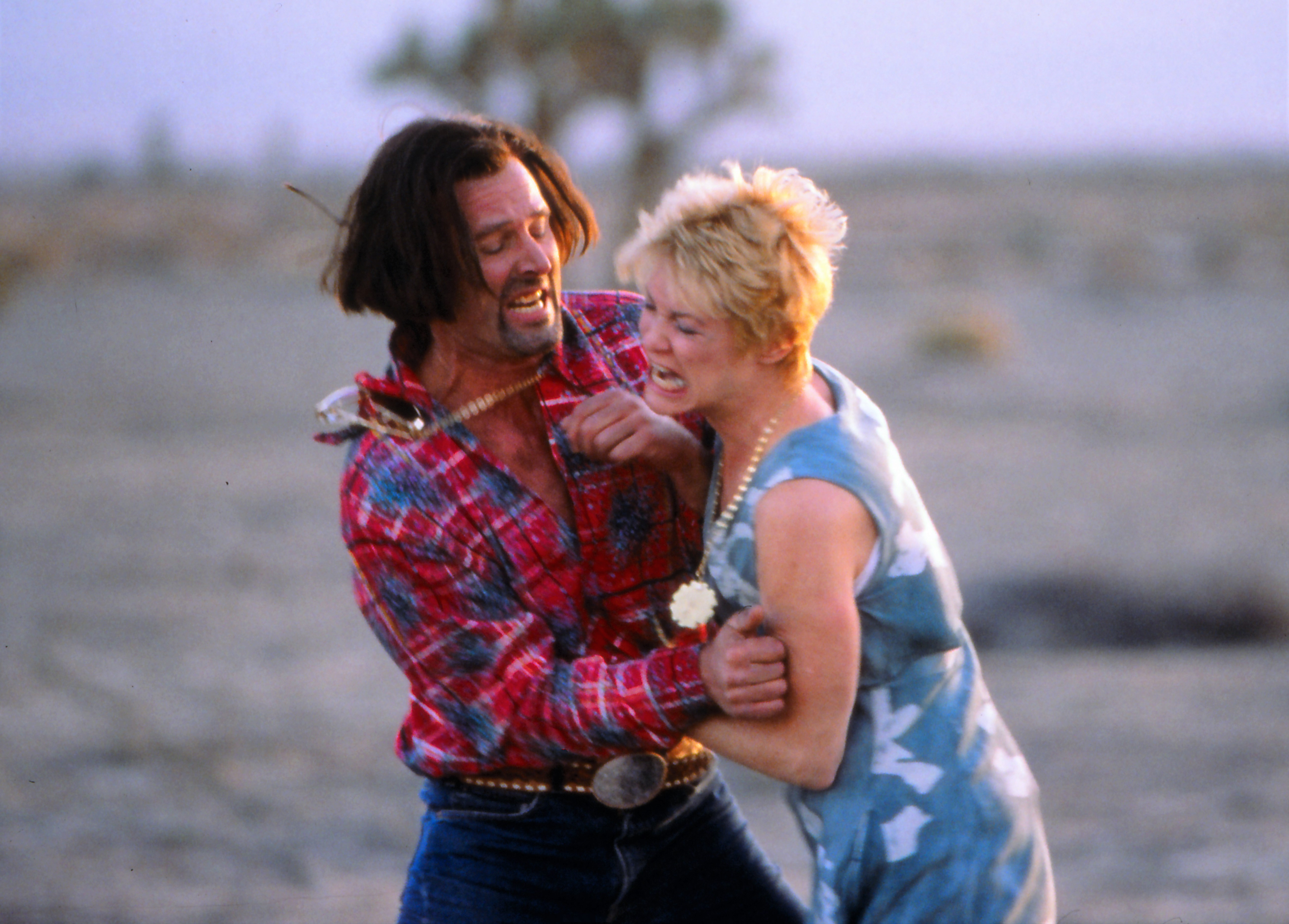 ILLUSION INFINITY (2004), Dee Wallace & Timothy Bottoms, as Patricia and Douglas, fighting in Death Valley